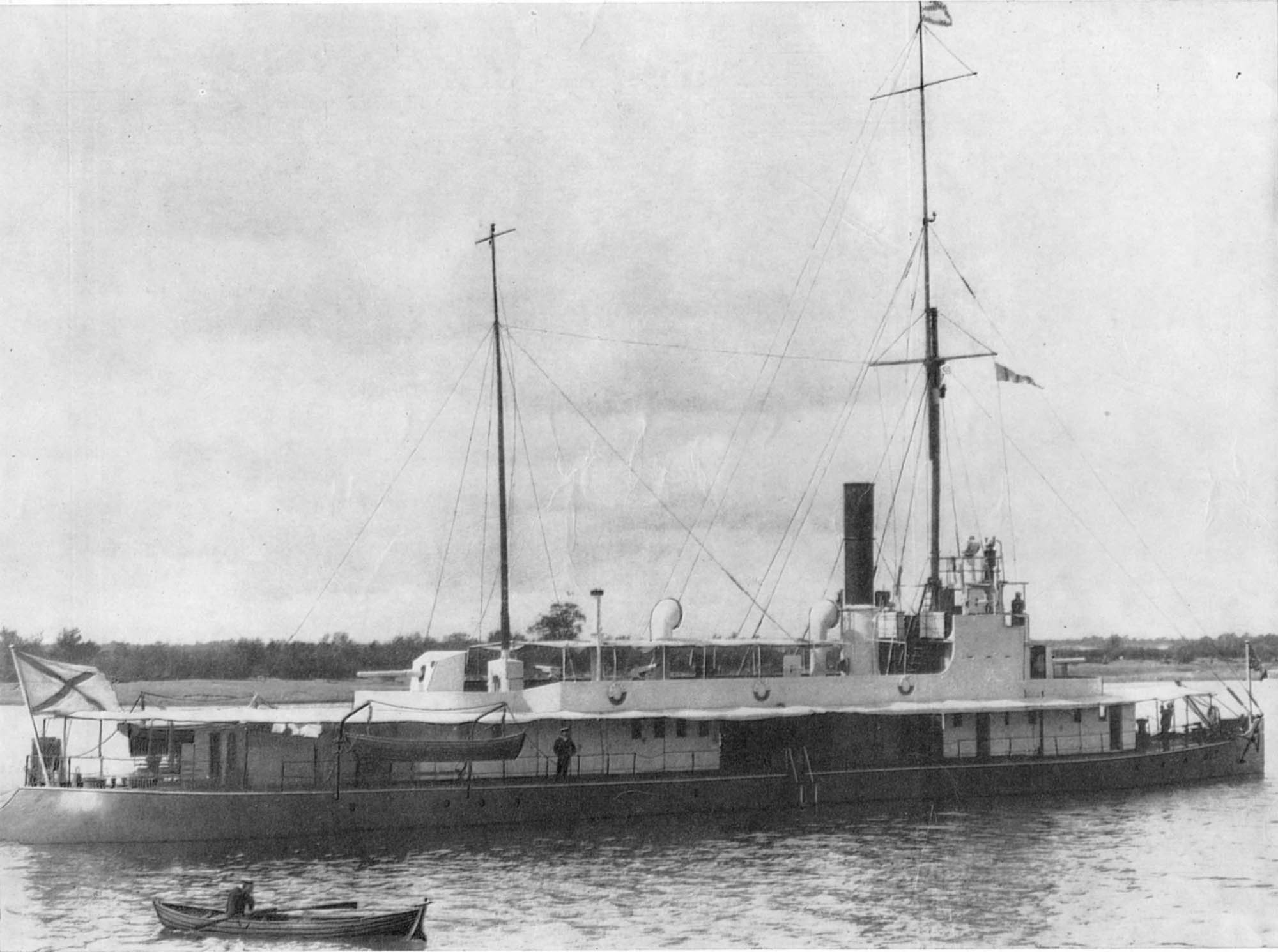 Imperial Russian gunboat Buryat.